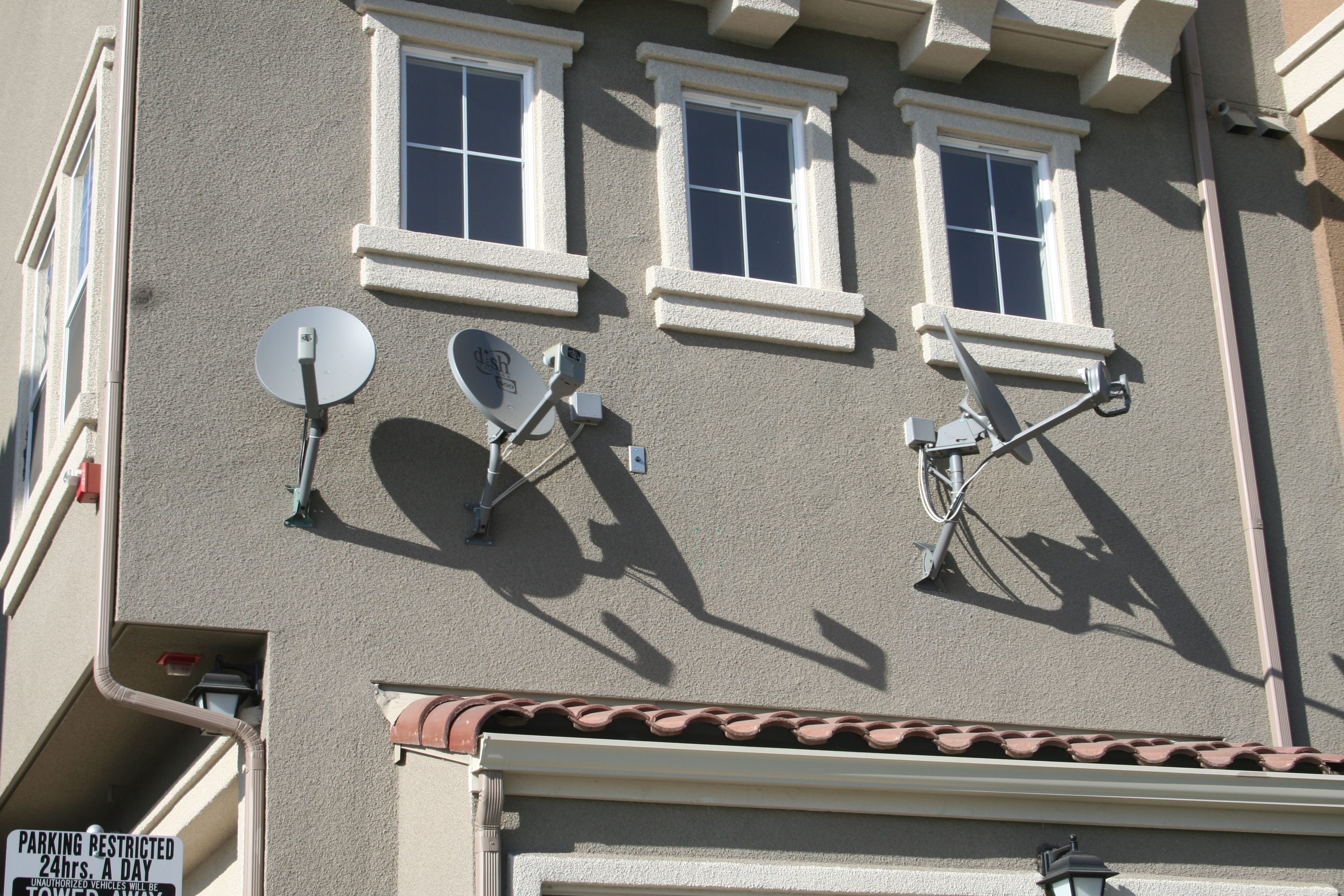 Photo taken of Satellite Dishes in San Jose, CA, by Brian Seeling Katt in August of 2006.